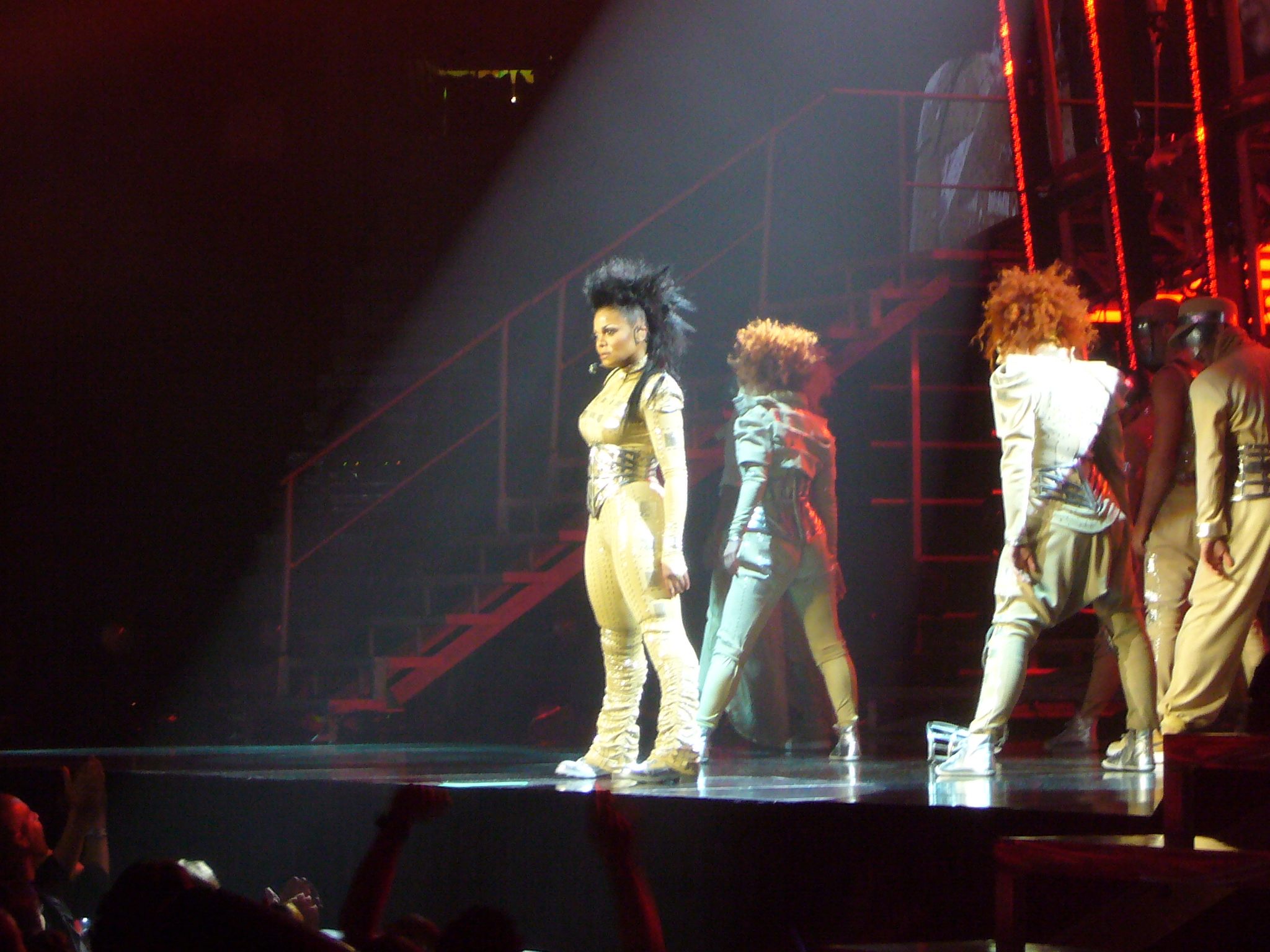 Janet Jackson, Vancouver